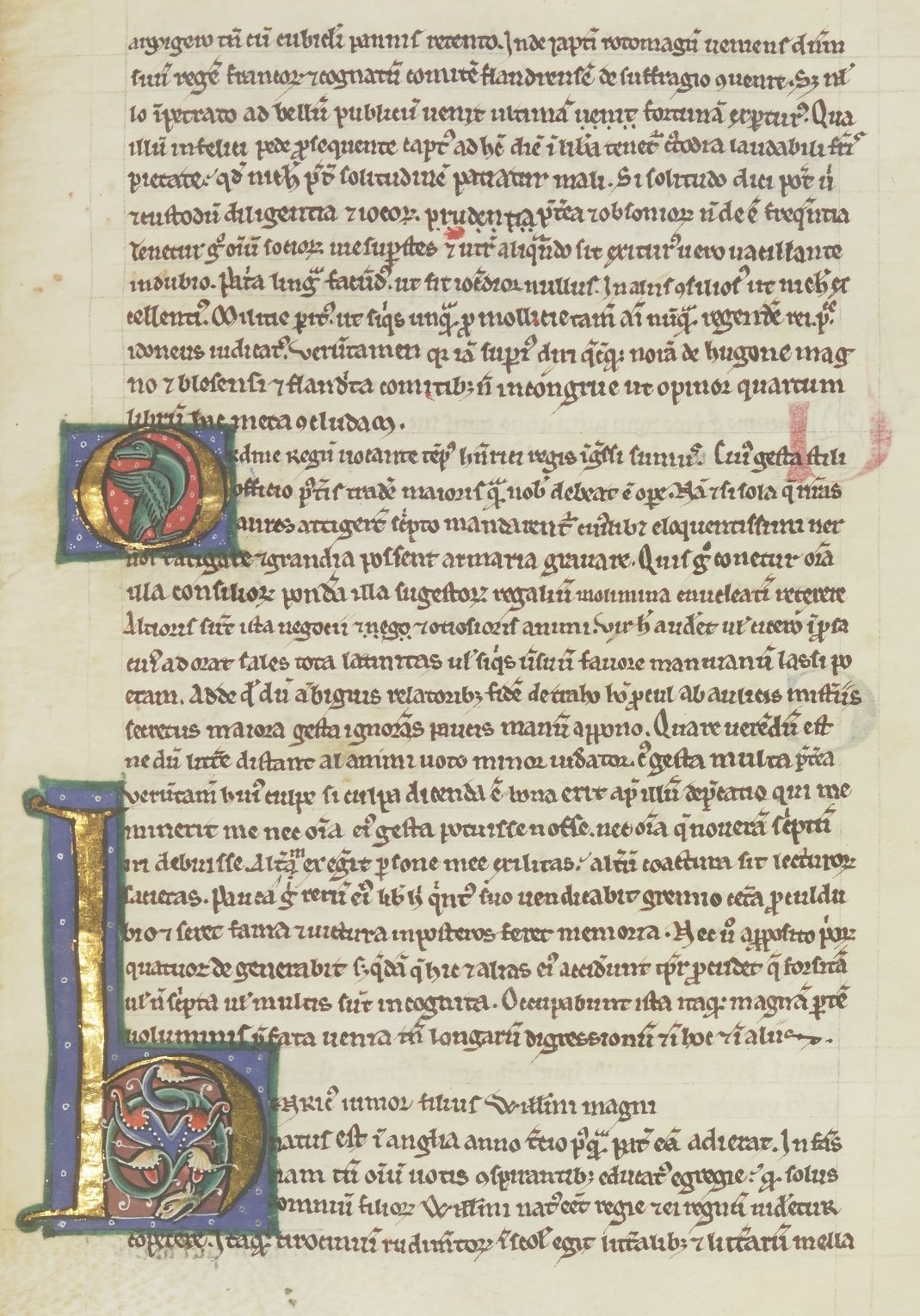 The Gesta Regum Anglorum of William of Malmesbury, 12th century, manuscript end of the 12th century at the Bibliothèque nationale de France, Paris, Department of Manuscripts, quotation: Latin 6047, folio 123r